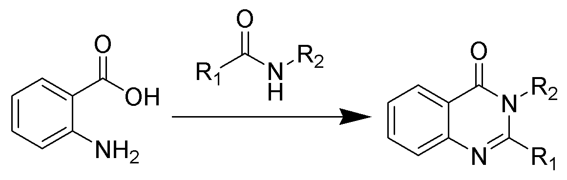 Description: Reaction scheme of the Niementowski quinazoline synthesis. Author, date of creation: selfmade by ~K, 03 July 2006. Source: - Copyright: Public domain. (PD) Comments: high-resolution b/w PNG; ChemDraw / The GIMP.